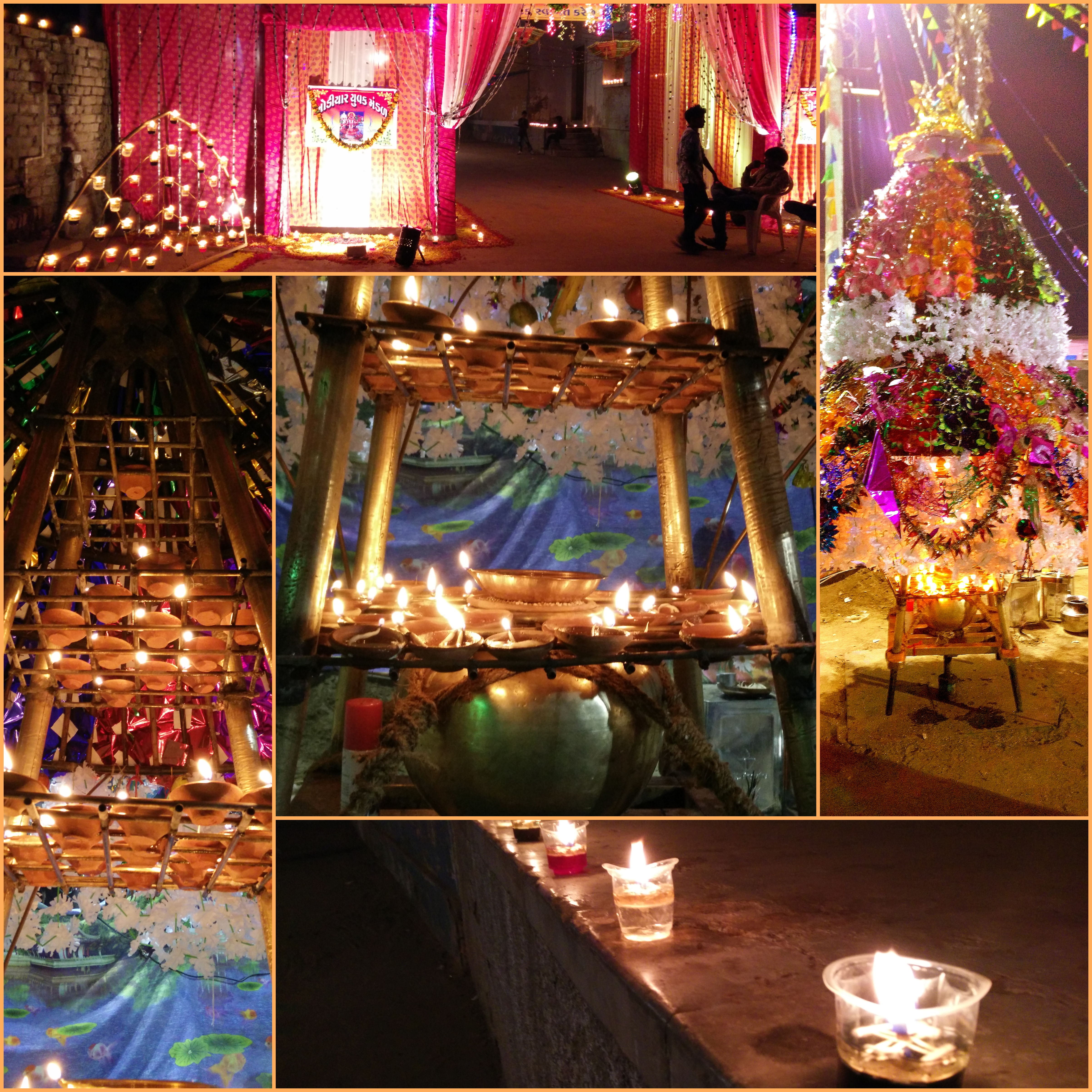 During Garba at Night